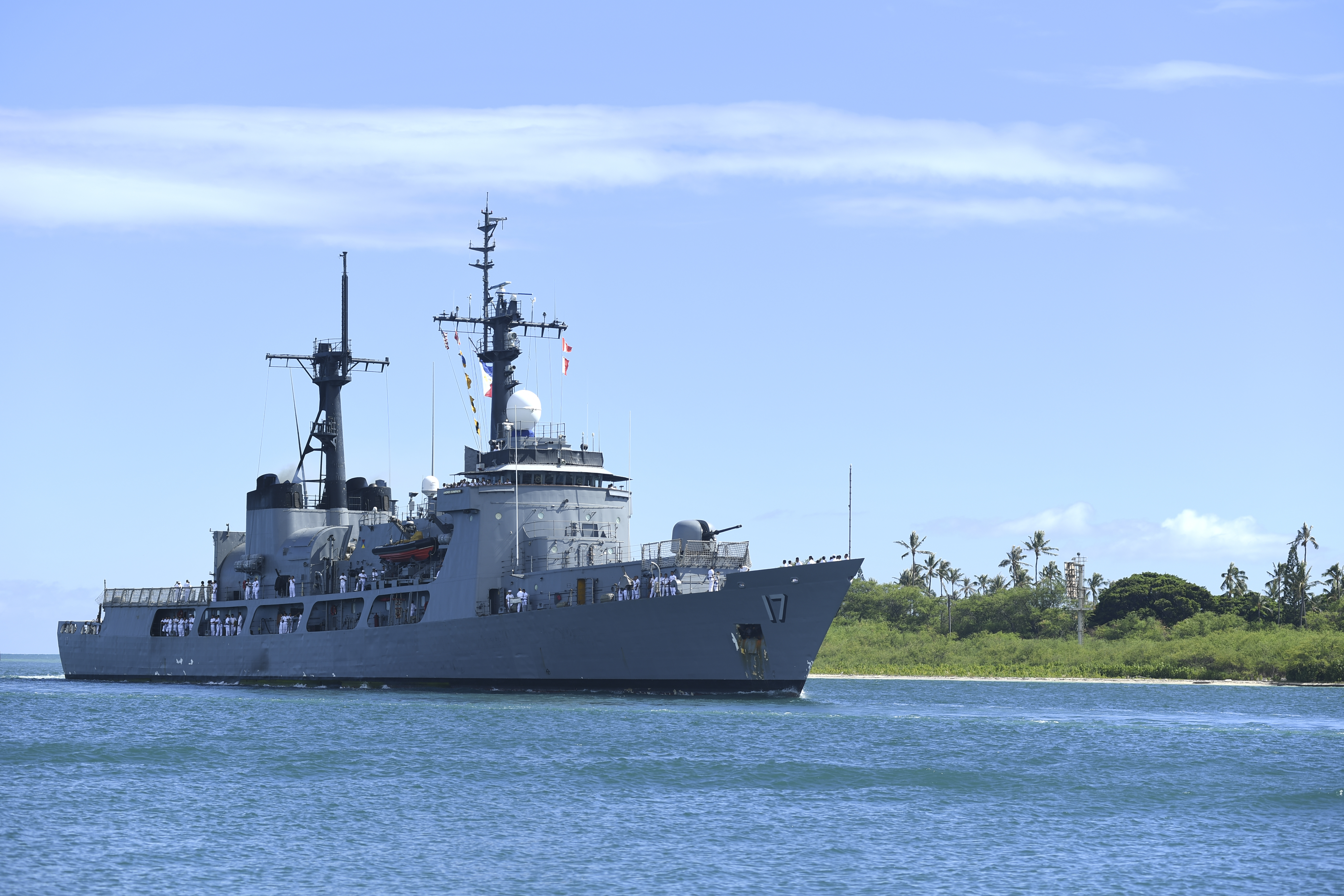 180625-N-KR702-0109 PEARL HARBOR (June 25, 2018) Philippine Navy frigate BRP Andres Bonifacio (FF 17) arrives at Joint Base Pearl Harbor-Hickam in preparation for Rim of the Pacific (RIMPAC) exercise. Twenty-six nations, more than 45 ships and submarines, about 200 aircraft and 25,000 personnel are participating in RIMPAC from June 27 to Aug. 2 in and around the Hawaiian Islands and Southern California. The world’s largest international maritime exercise, RIMPAC provides a unique training opportunity while fostering and sustaining cooperative relationships among participants critical to ensuring the safety of sea lanes and security of the world’s oceans. RIMPAC 2018 is the 26th exercise in the series that began in 1971. (U.S. Navy photo by Mass Communication Specialist 1st Class Holly L. Herline)